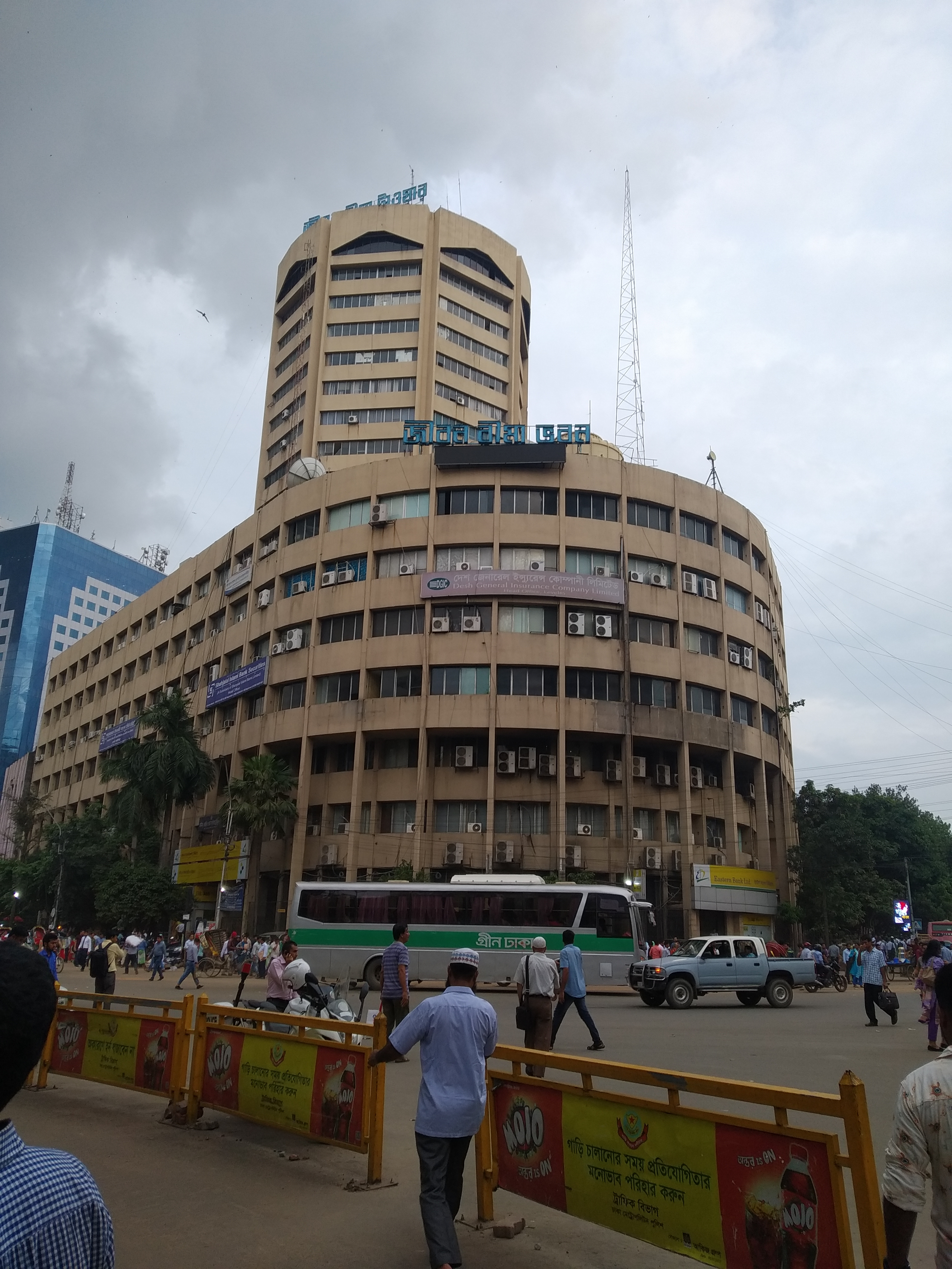 The jiban bima bhavan in motijheel, Dhaka